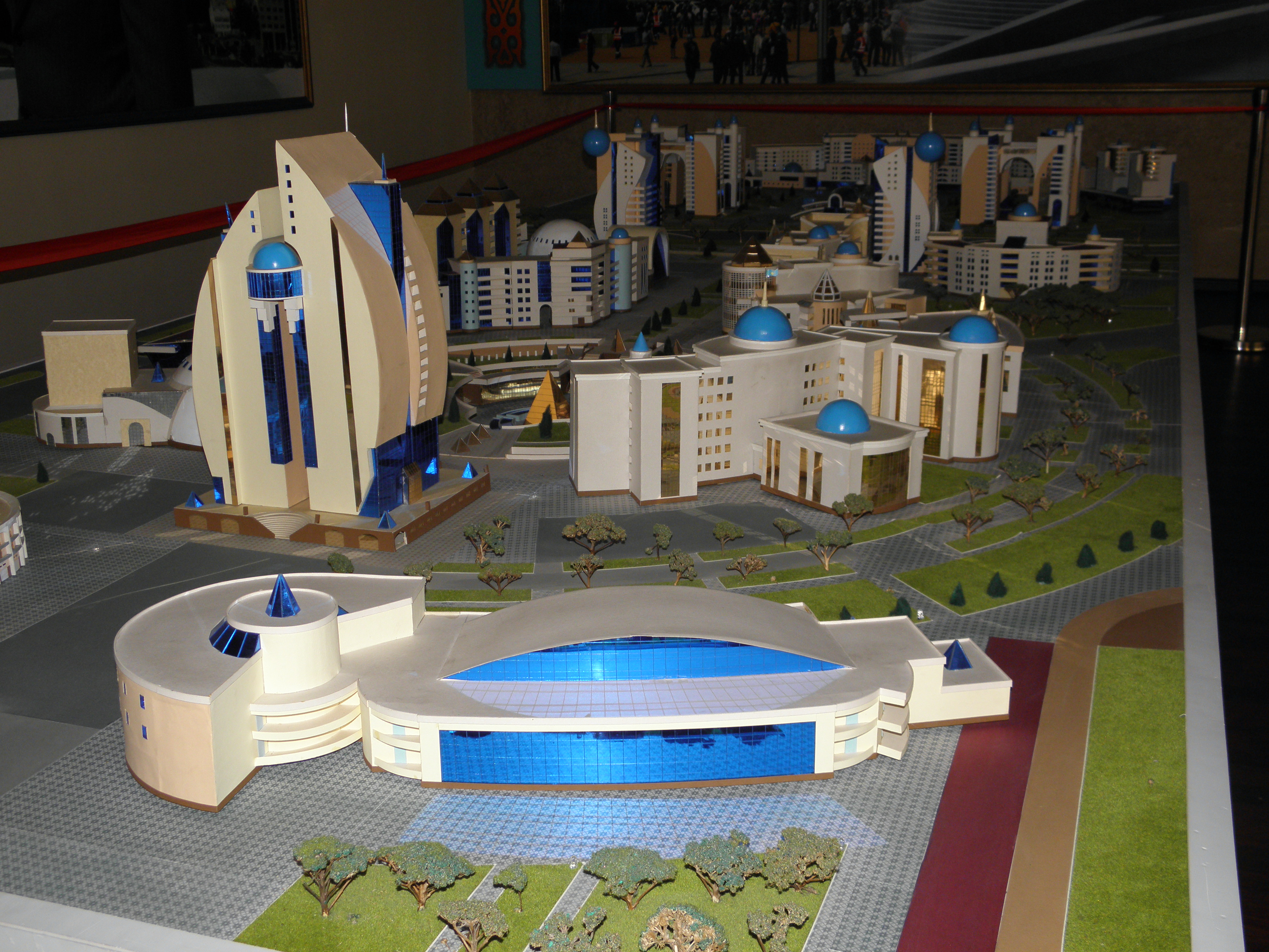 Болашақ